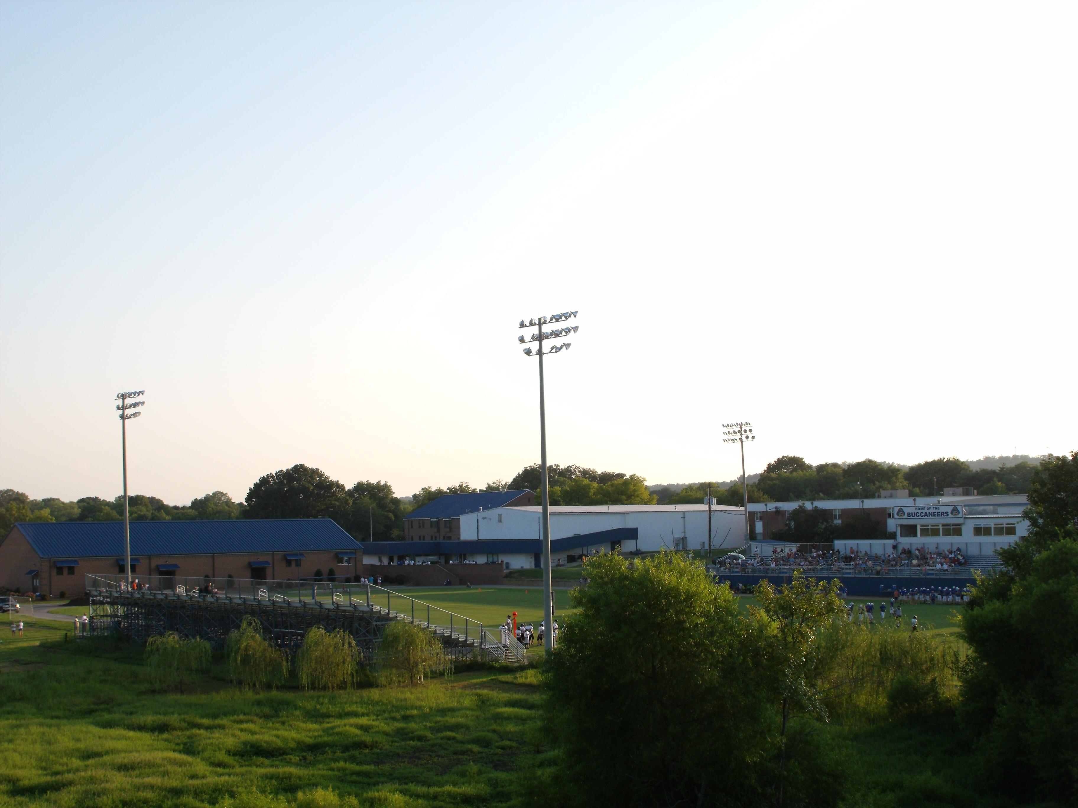 View two of the Boyd-Buchanan School Football Stadium and Field House.